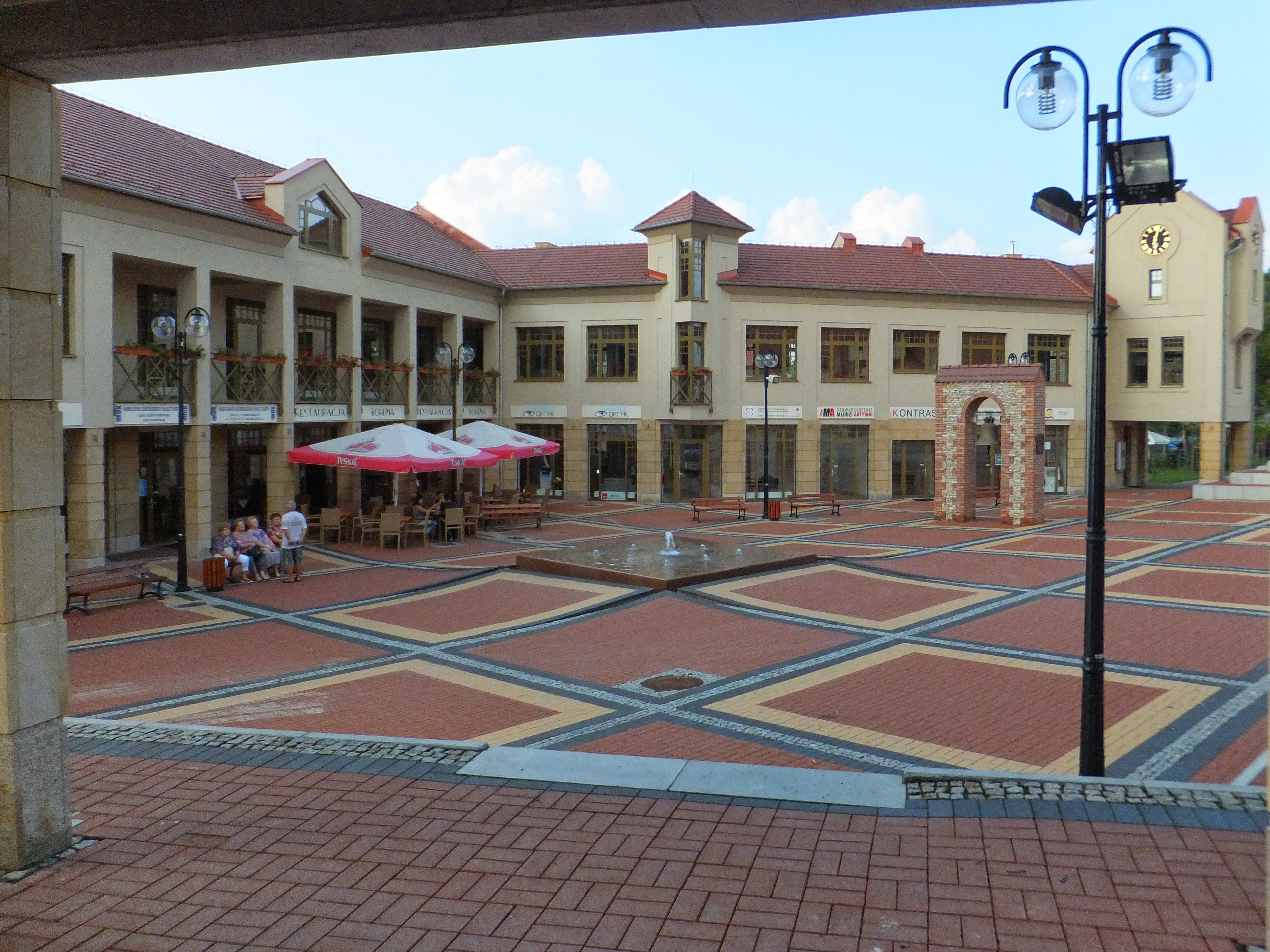 Farski square (pol. plac Farski) in Lędziny (Poland).